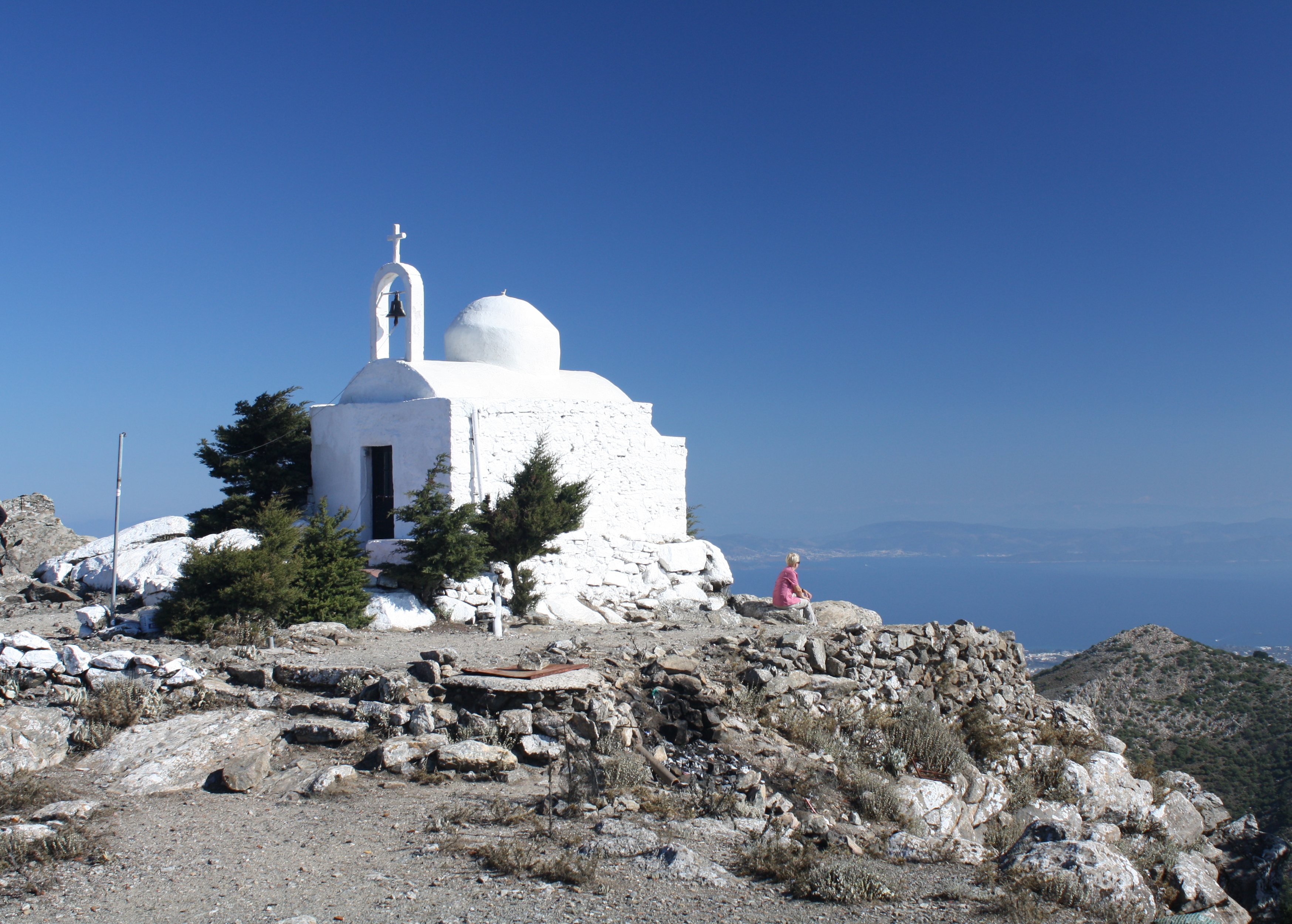 Chapel Christos Dikeos near the top of Dikeos Mountains on the Island of Kos, Greece